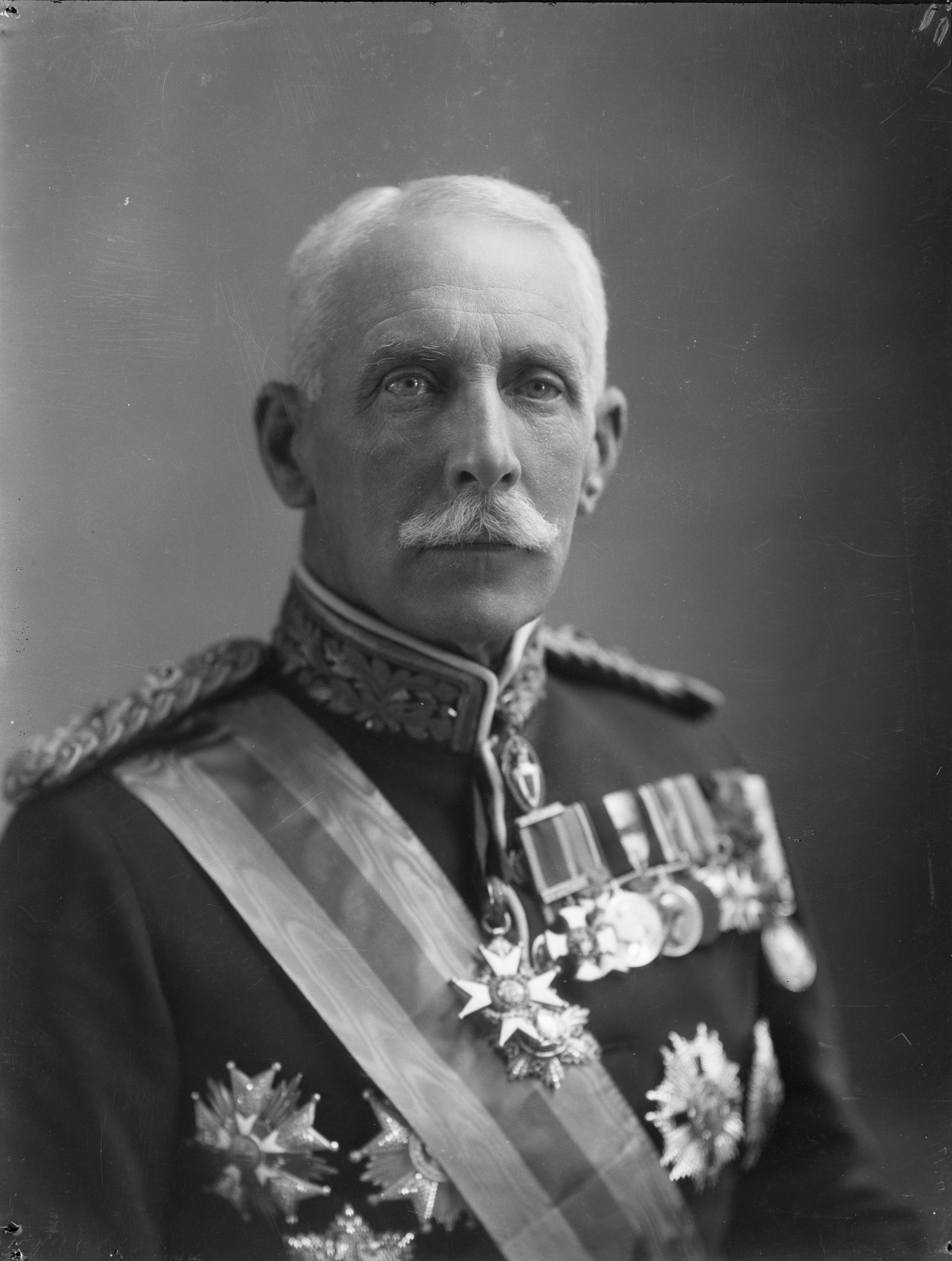 Sir Charles Fergusson, circa 1926, photographed by Herman John Schmidt. Head and shoulders portrait.